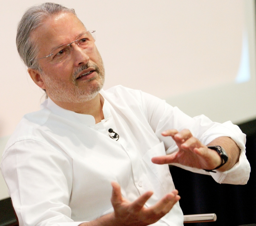 Amitava Chattopadhyay, Talking about Brand Management at Emerging Market Multinationals.jpg Other information I am the designer of Prof. Chattopadhyay's website and online presence.